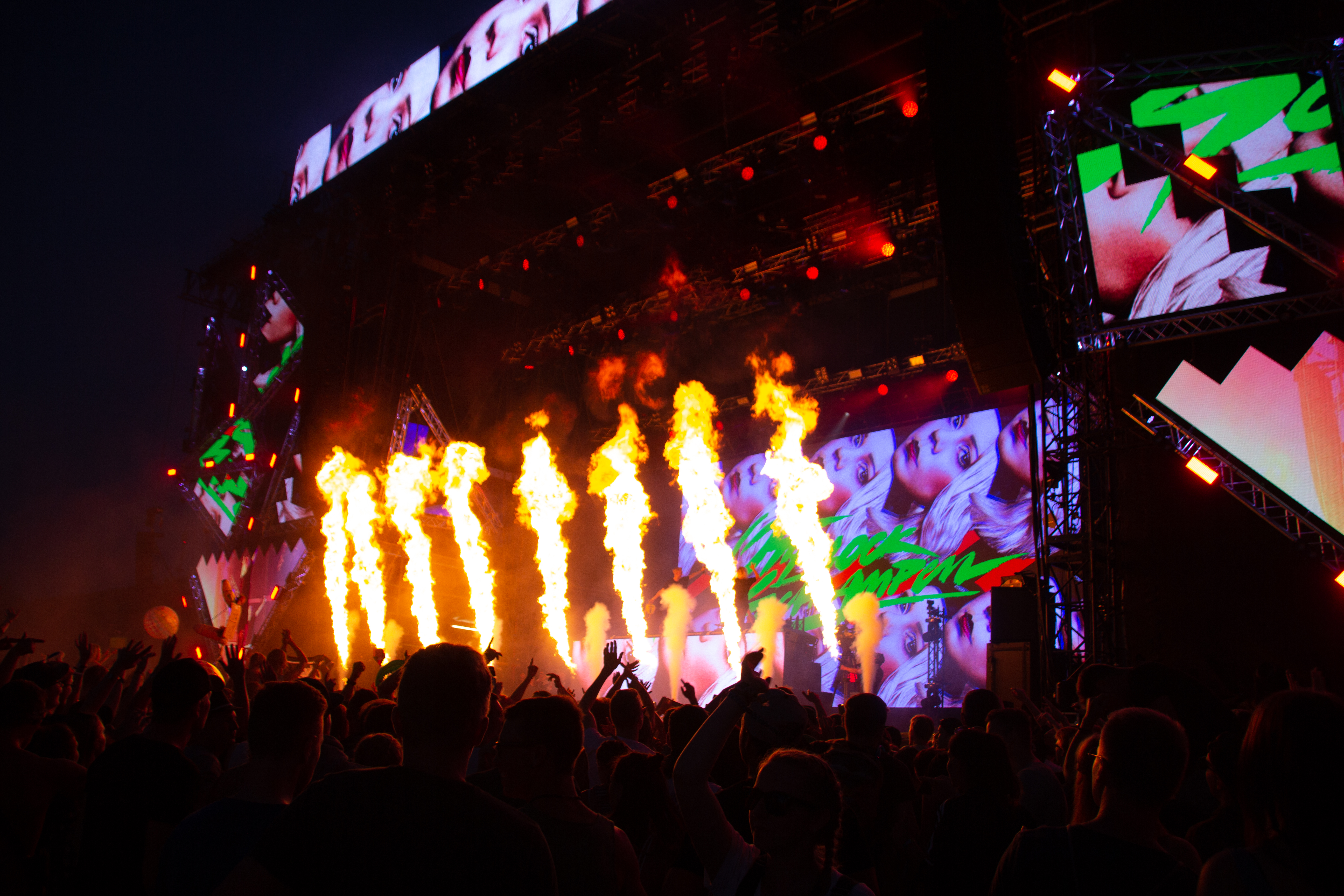 Ostblockschlampen at SMS 2018